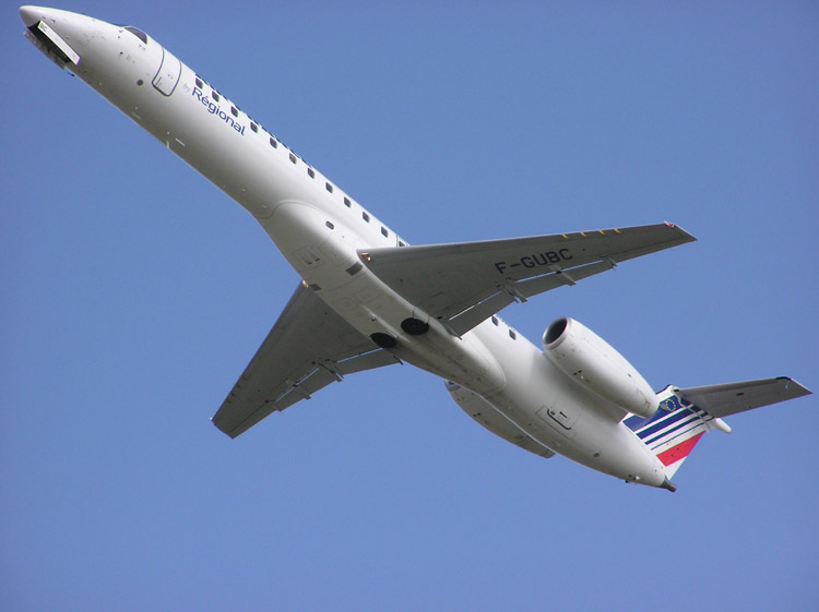 An Embraer RJ 145 of Air France (F-GUBC) on the climbout from Bristol Airport, Bristol, England. Photographed by Adrian Pingstone in March 2004 and released to the public domain.